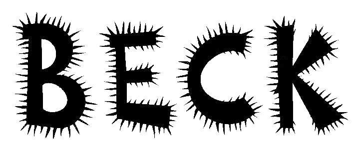 Beck Logo